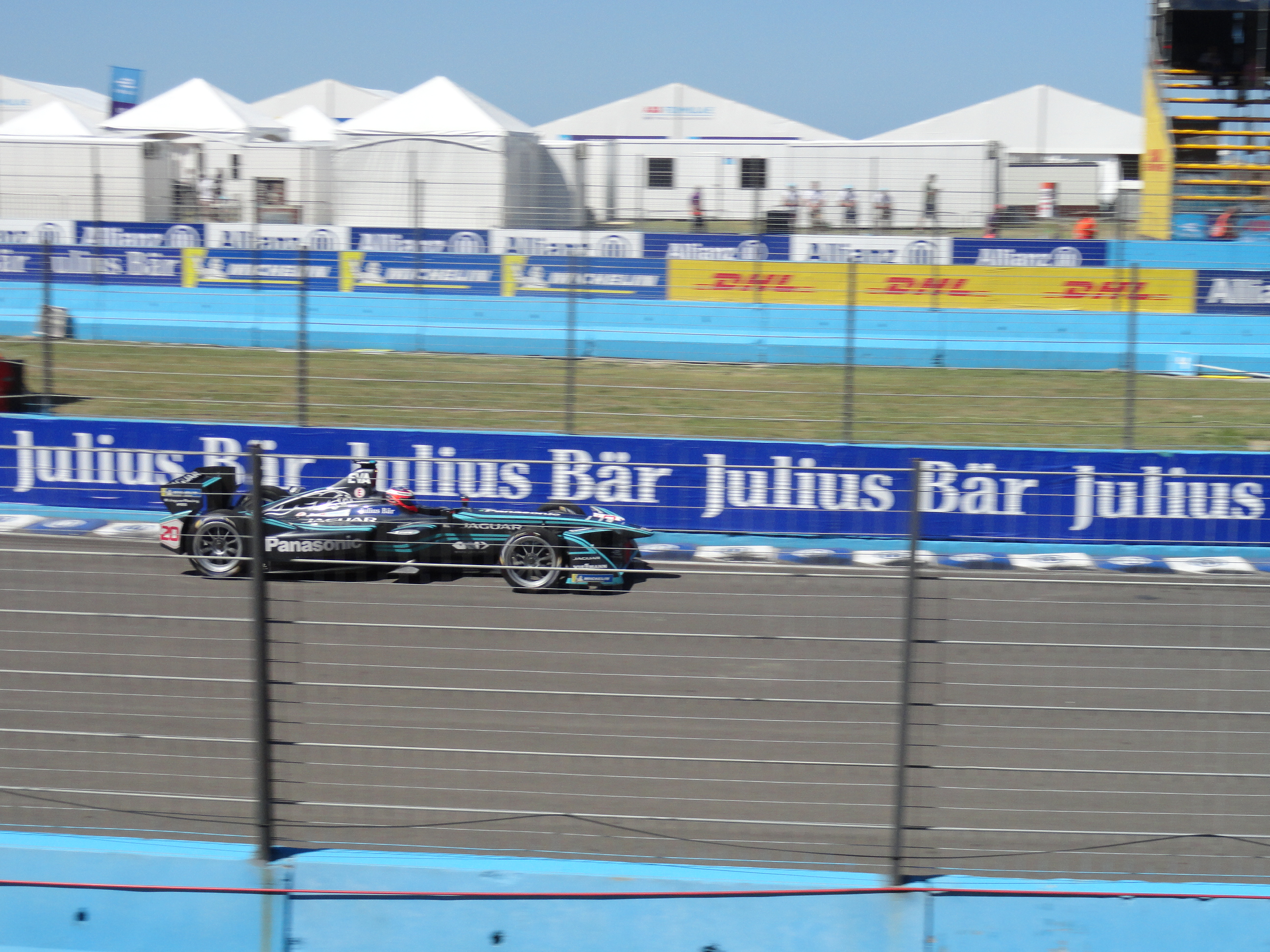 Qualifying at the 2018 Punta del Este ePrix.